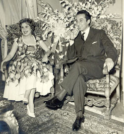 Queen Nariman of Egypt in her second marriage to Dr. Adham Al-Naqeeb.